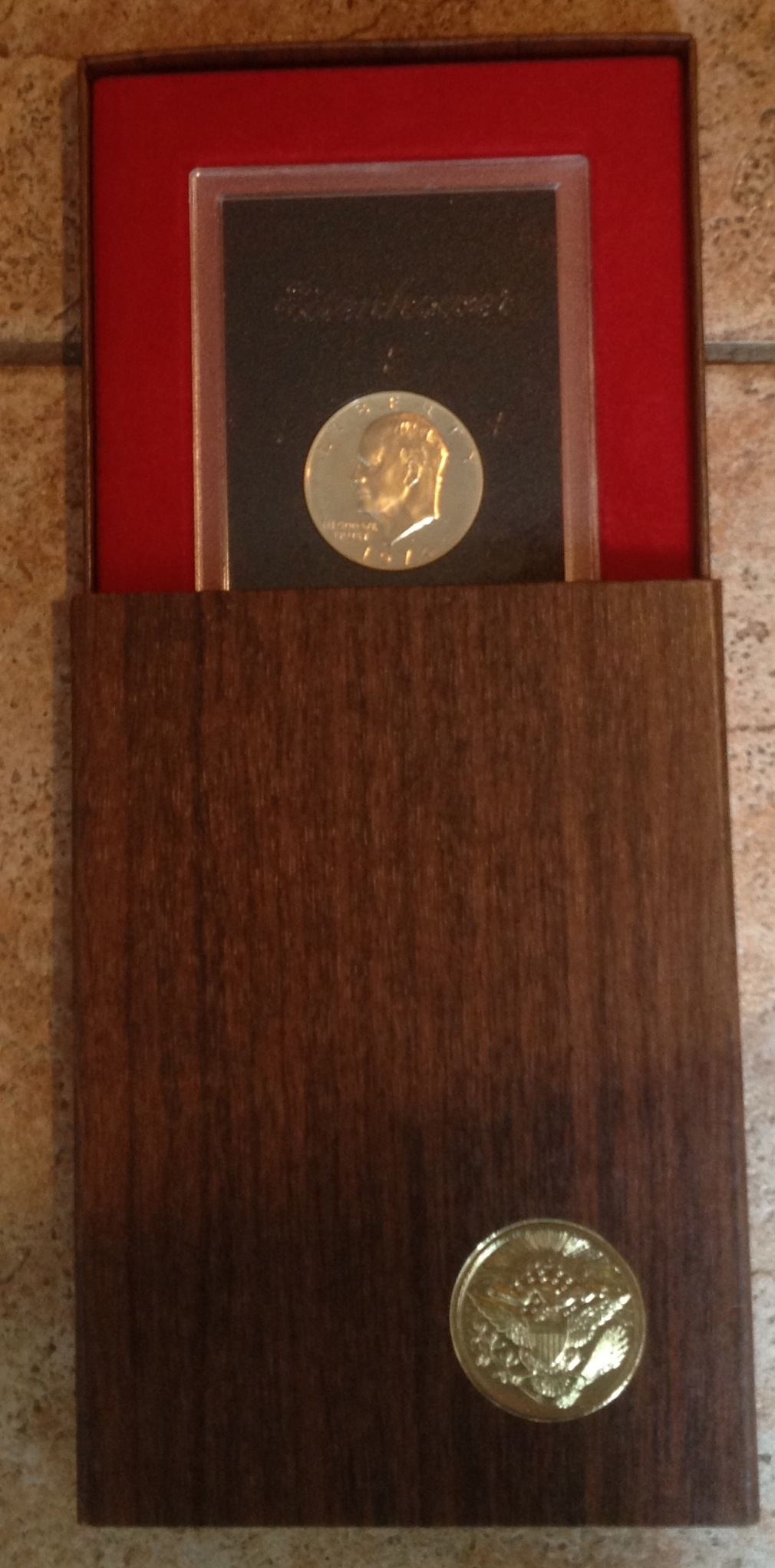 A 1974-S proof "Brown Ike", partially open to show the coin insert